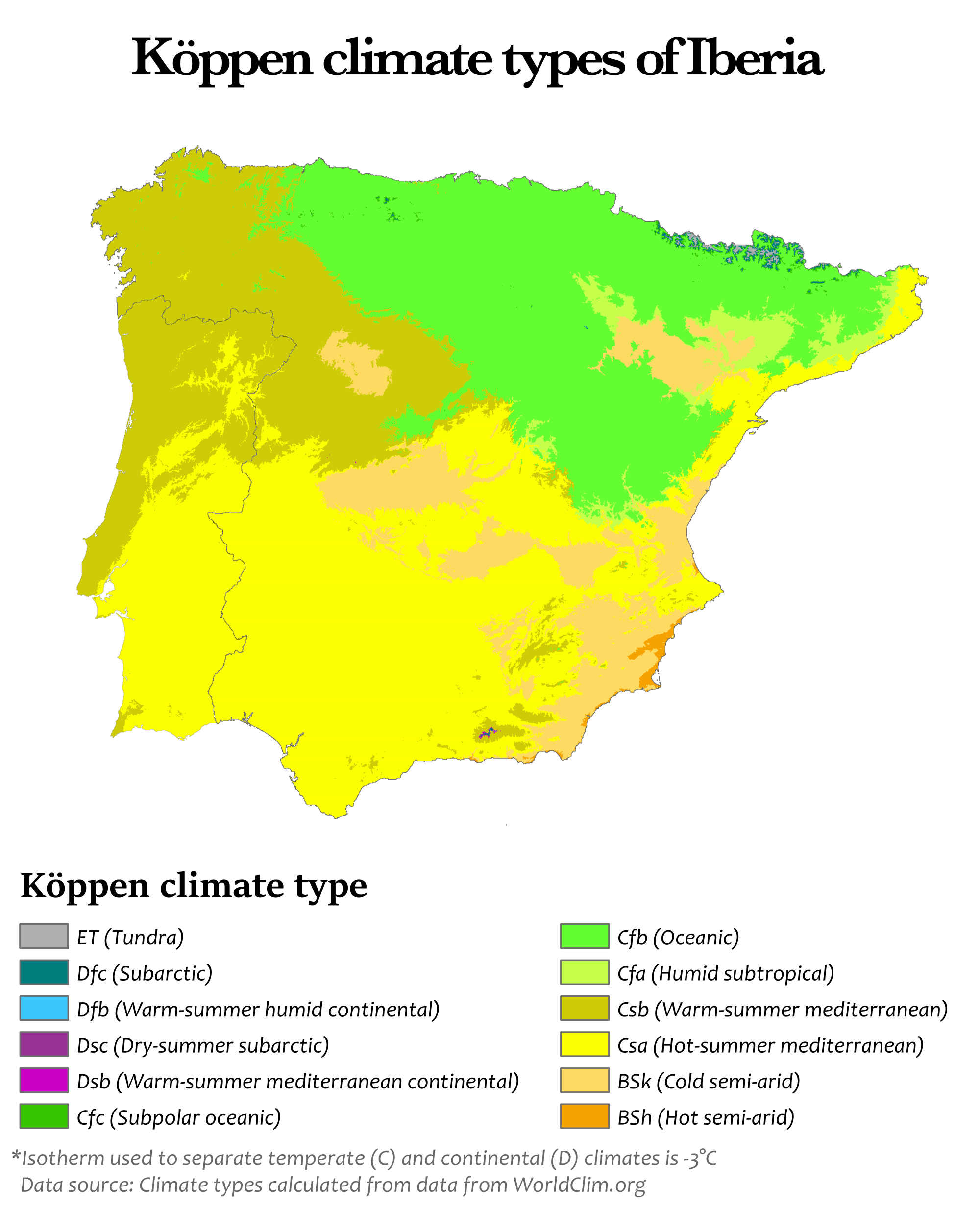 I merged the .png files of the Köppen maps of both Portugal and Spain (both created by Adam Peterson) from their respective pages on Wikipedia (Climate of Portugal / Climate of Spain) using Spain's as a base. Removed the Balearic Islands, Ceuta and Melilla from the Spain file, and text from Portugal's. Replaced the title in Spain's map, changing “Spain” to “Iberia” in the process and changing the font to a similar one (I couldn't manage to find what the original font was so I used Baskerville, which to my eyes looked similar).